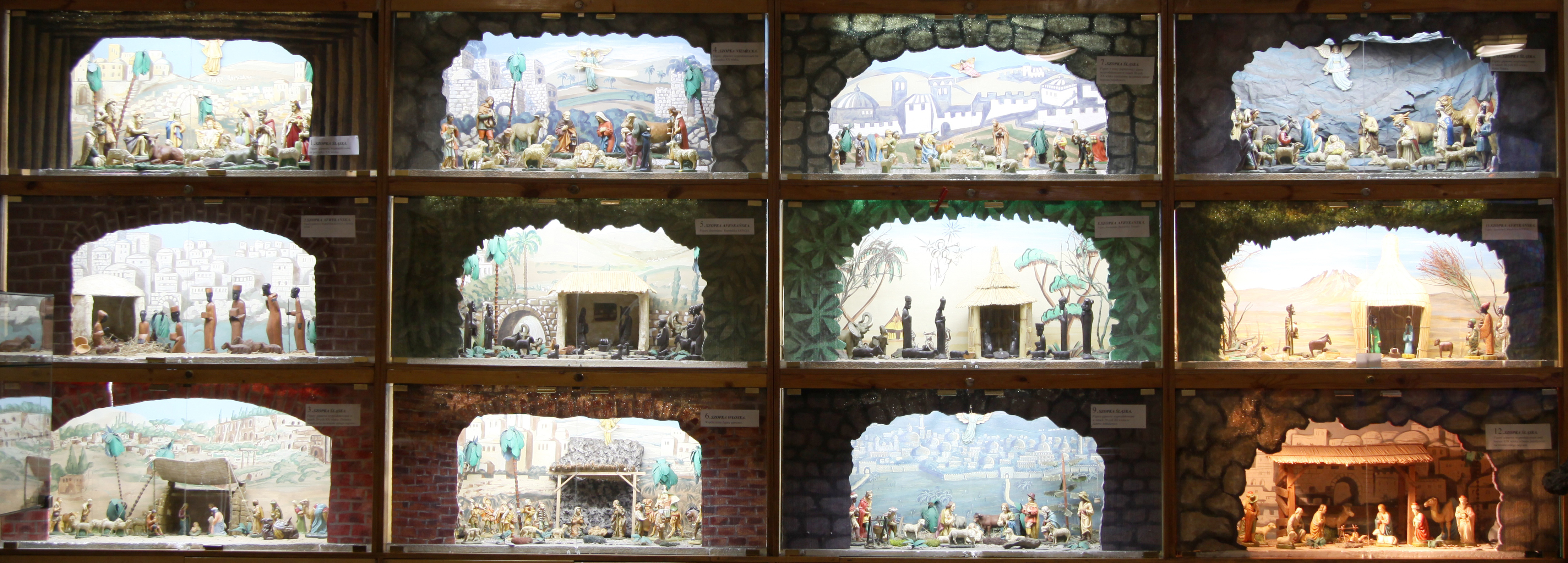 Crib in Katowice Panewniki, Poland (cribs from around the world, 2010)